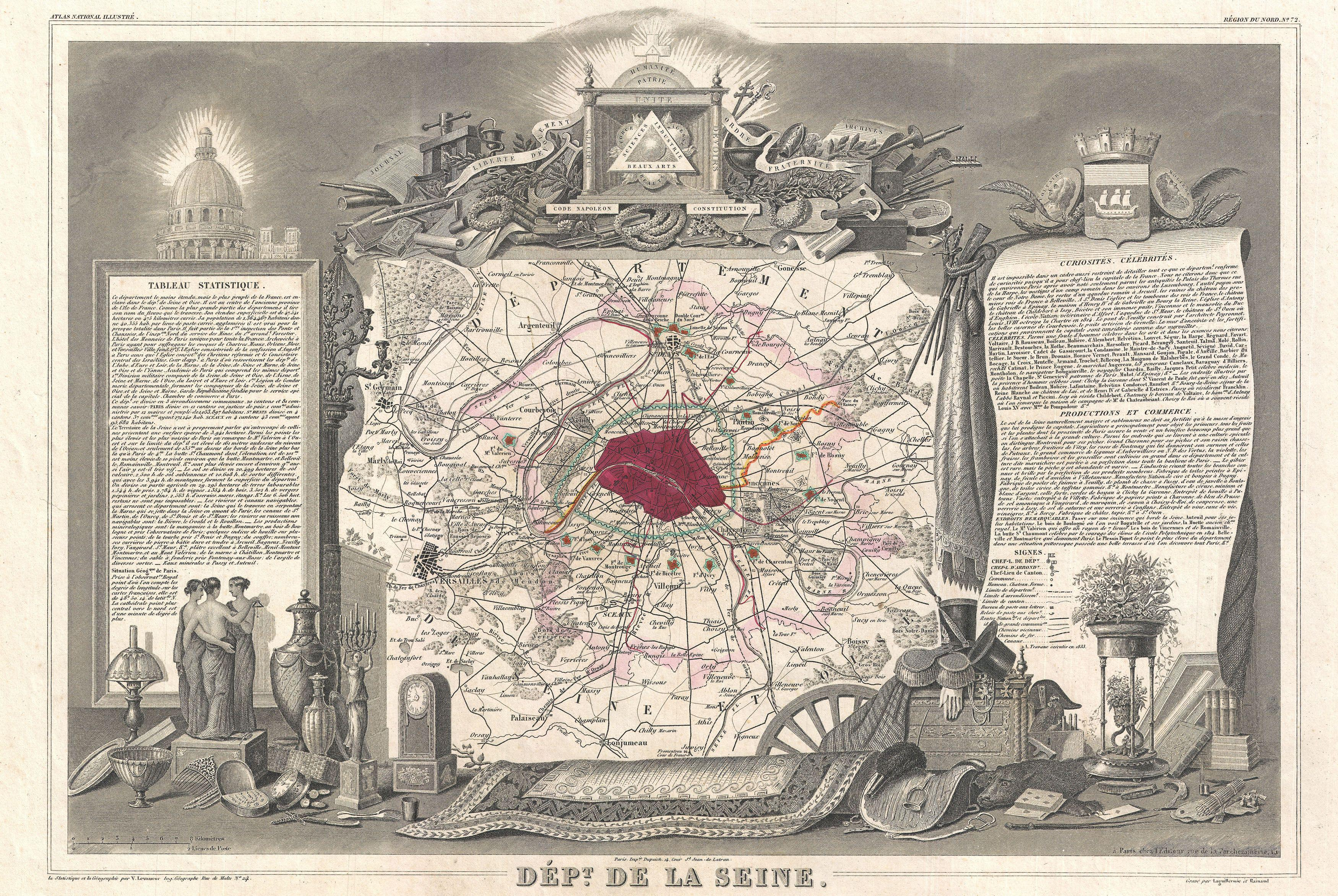 This is a fascinating 1852 map of the French department of Seine. Focusing on Paris, this map covers from the Foret de St. Germain to the Bois Notre Dame and from Versailles to Chelles. Shows the city walls as well as the ring of fortifications completed in 1848. The embastillement of Paris was perhaps the most extravagant waste of resources of the July Monarchy. The whole is surrounded by elaborate decorative engravings designed to illustrate the cultural wealth of the region. There is a short textual history of Seine on both the left and right sides of the map. Published by V. Levasseur in the 1852 edition of his Atlas National de la France Illustree.